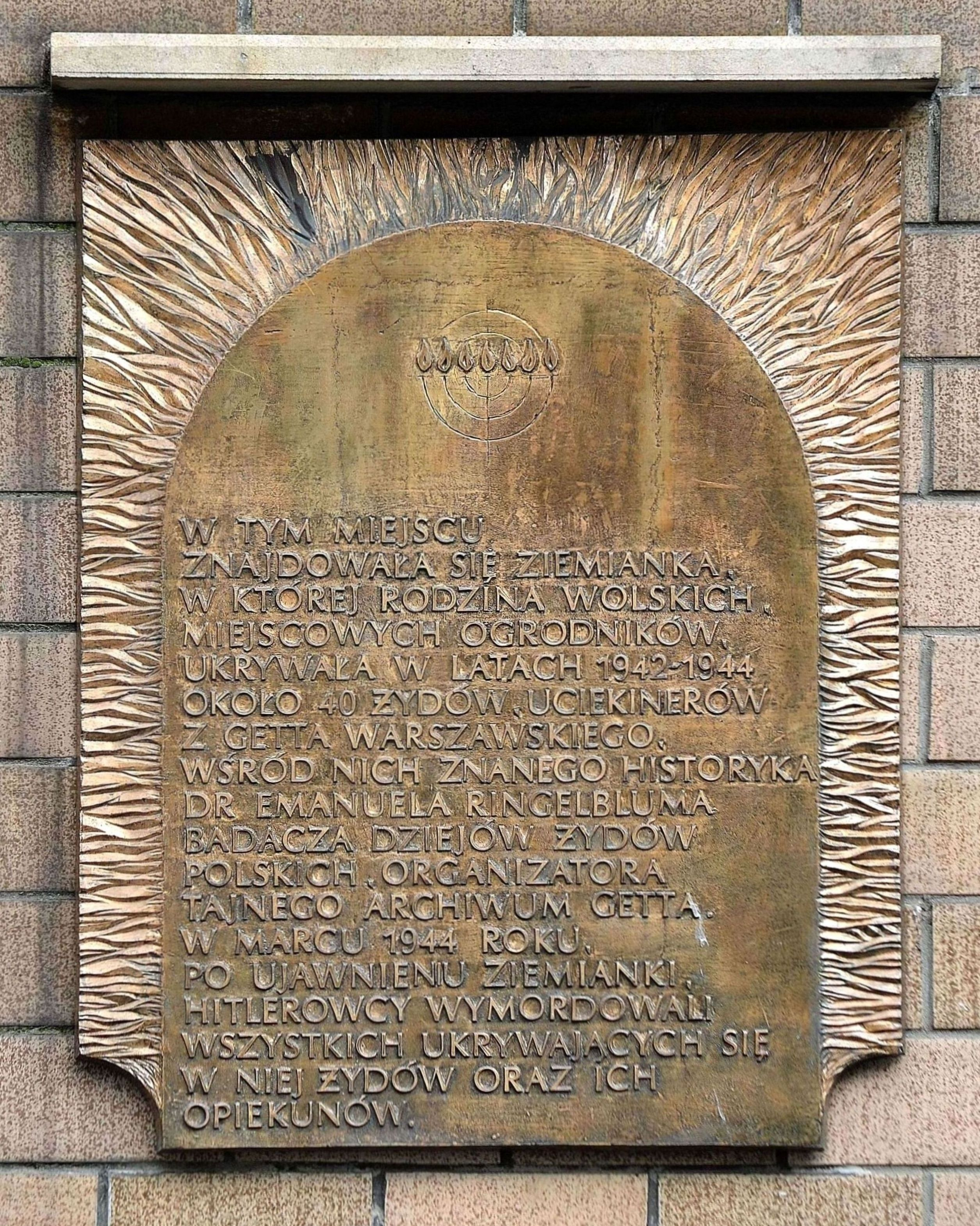 A plaque commorating a group of around 40 Jews (among them Emanuel Ringelblum) and the Wolski family who was hiding them at 77 Grójecka Street in Warsaw (prewar address of the bunker − 81 Grójecka Street)